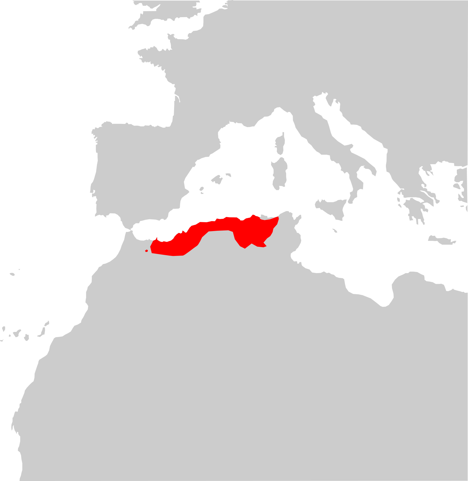 Psammodromus blanci distribution map.